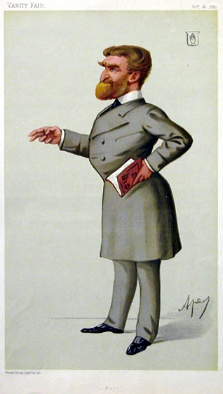 Caricature of Sir John George Tollemache-Sinclair Bt MP. Caption read "A Poet".